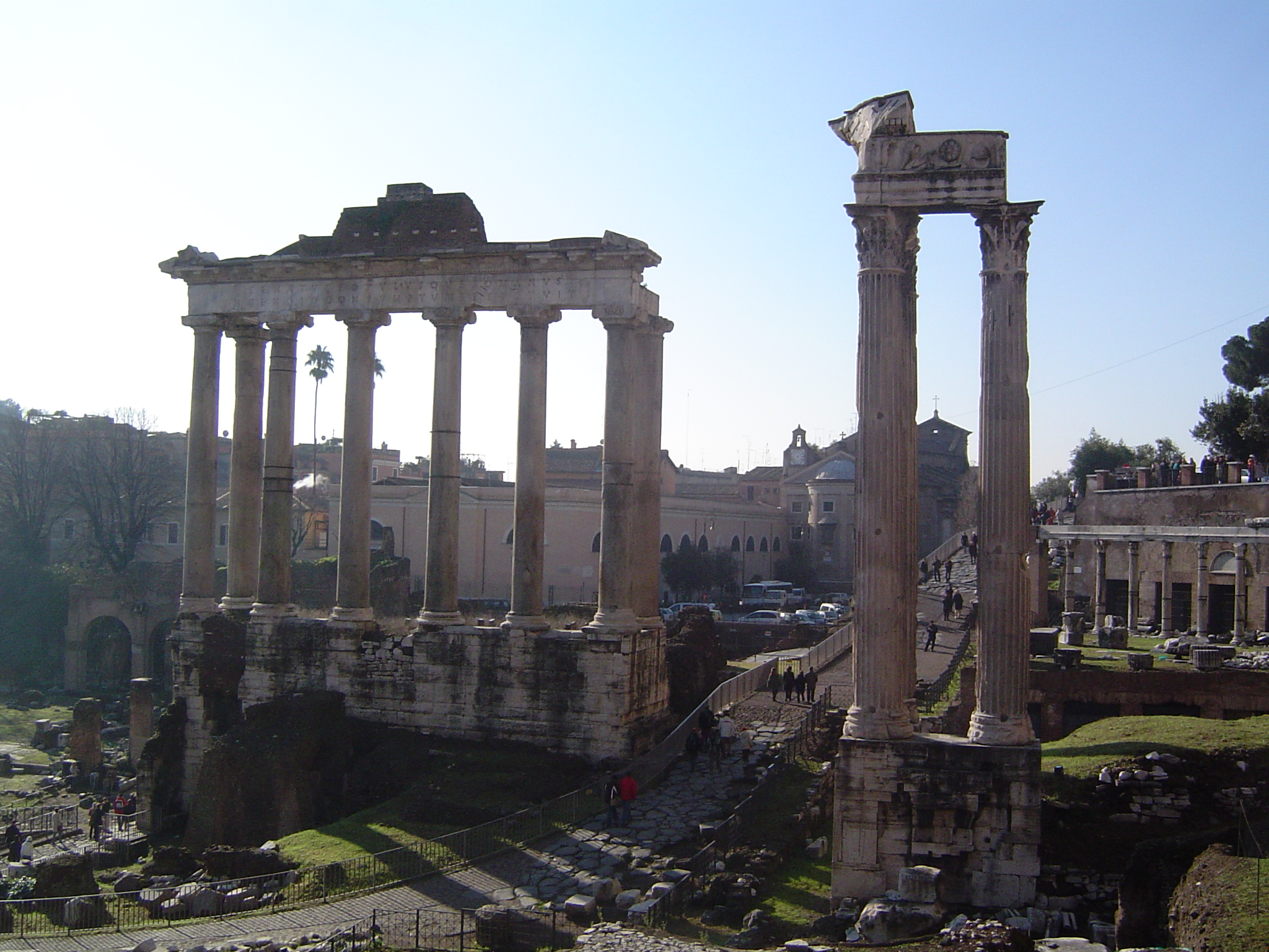 The Clivus Capitolinus, ancient street leading form the Forum Romanum to the Capitoline hill. Left is the Temple of Saturn, right the Temple of Vespasian (front) and the Porticus Deorum Consentium (back)